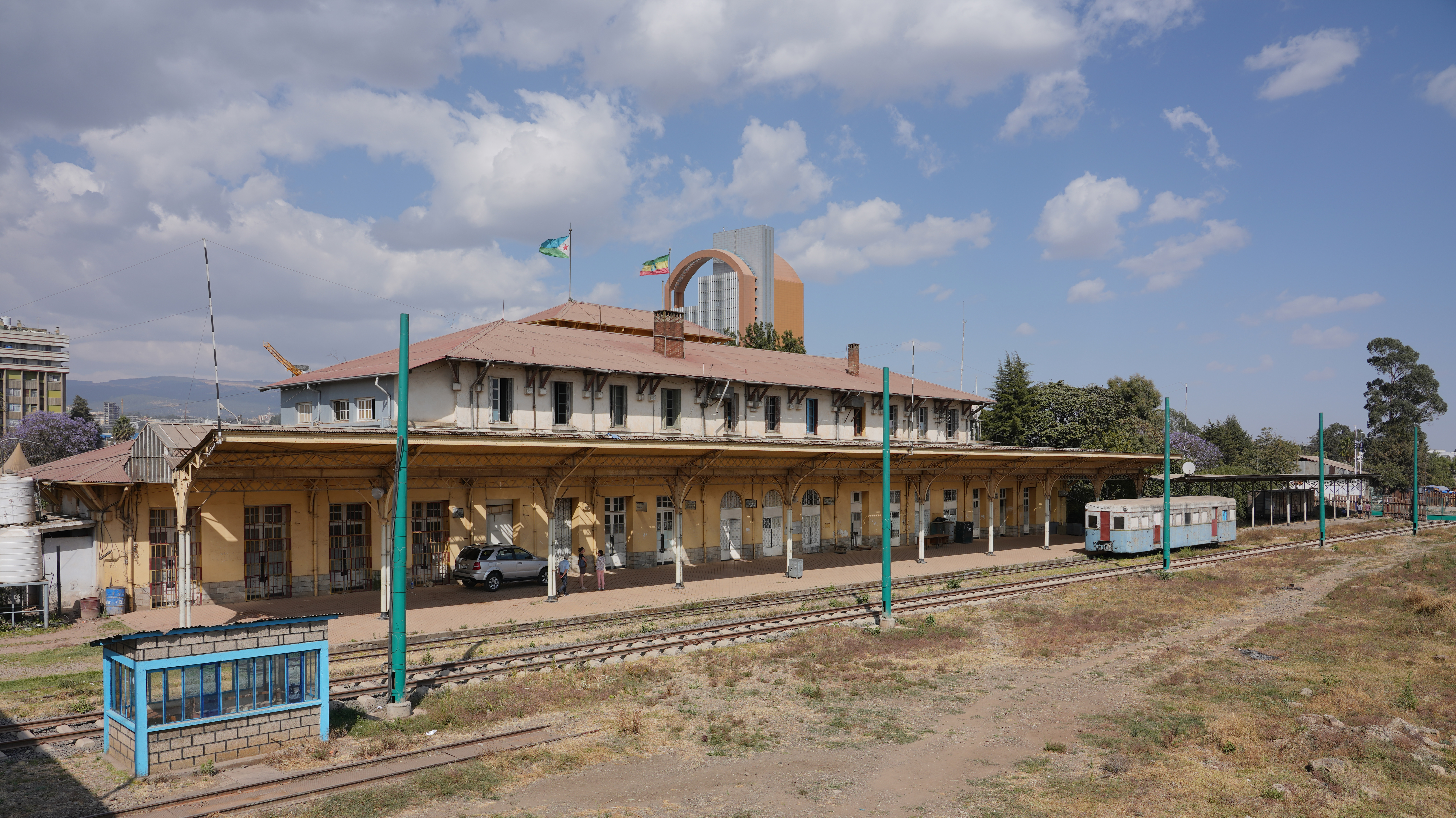 Former railway station (Djibouti railway terminal / La Gare) in Addis Ababa, Ethiopia